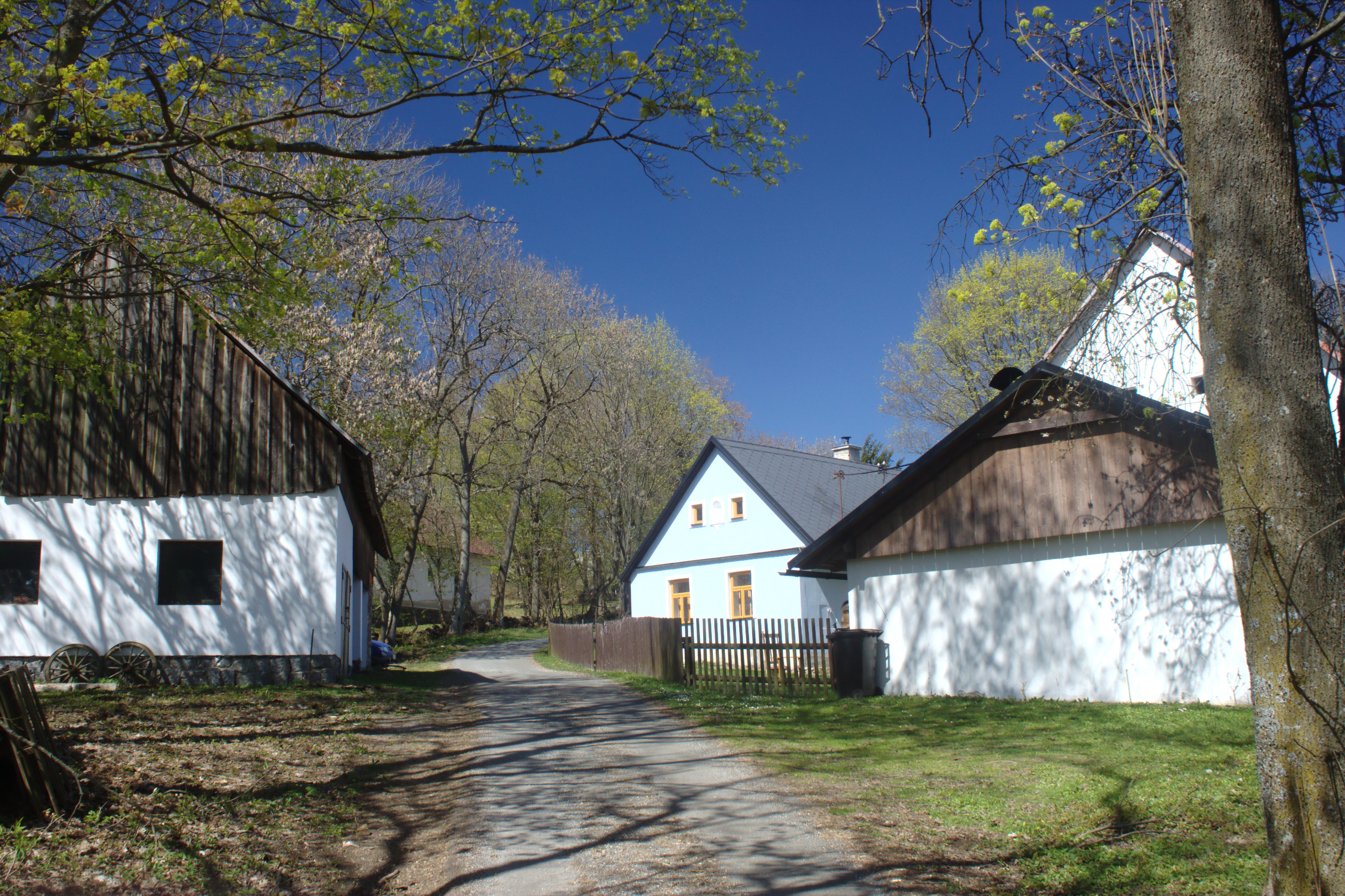 This photograph was created as a part of Wikiexpedition Mladá Vožice, a project supported by Wikimedia Foundation grant.